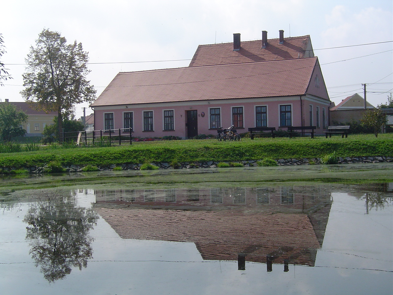 Townhall in Mazelov